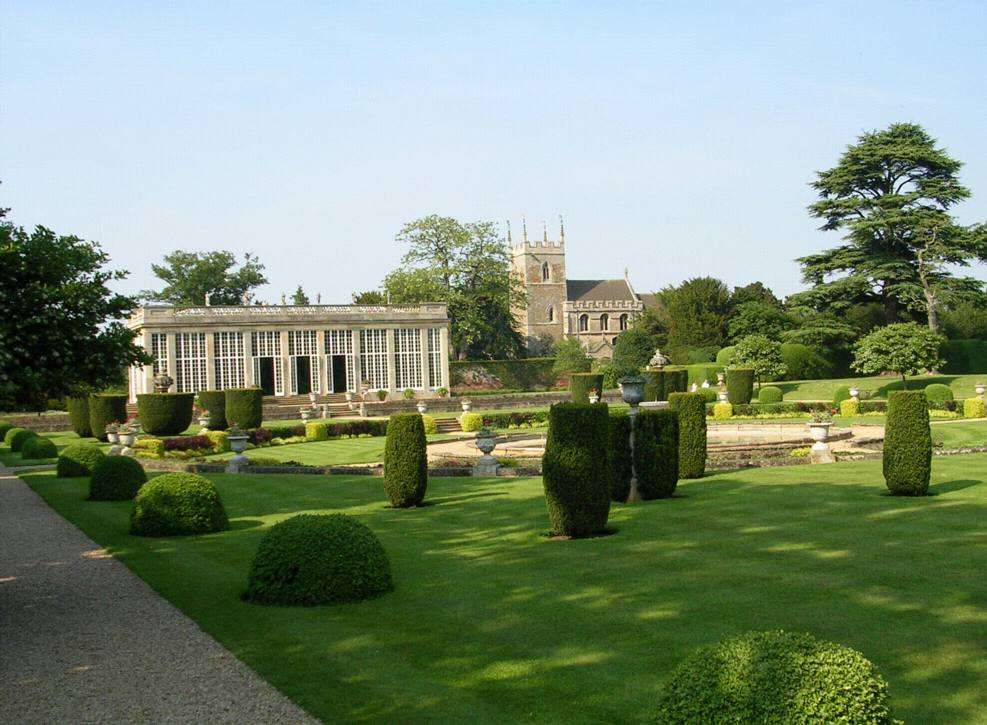 Garden of Belton House, England. Photographed by Giano June 2006 as a GIF file Image:Belton Garden.gif). Retouched by Rugby471.